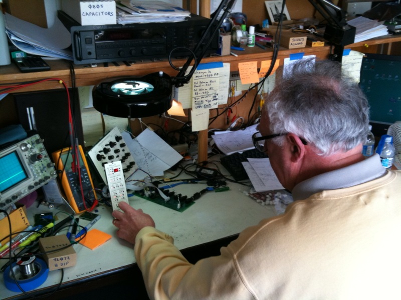 Tom Oberheim, pictured here at his workbench in April 2010, demonstrating his newly completed MIDI-to-CV converter panel for the SEM. Images courtesy of Gino Robair